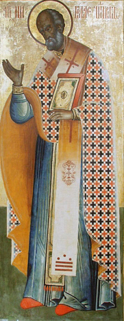 Saint Nicholas, Russian icon from first quarter of 18th cen.